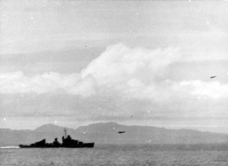 Two Japanese torpedo bombers attacking allied warships fly past a U.S. Navy destroyer at Savo Island. The ship is probably USS Selfridge (DD-357).